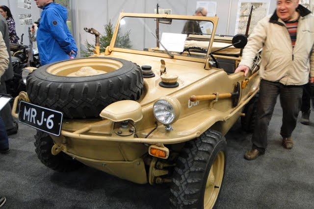 Volkswagen - Schwimmwagen